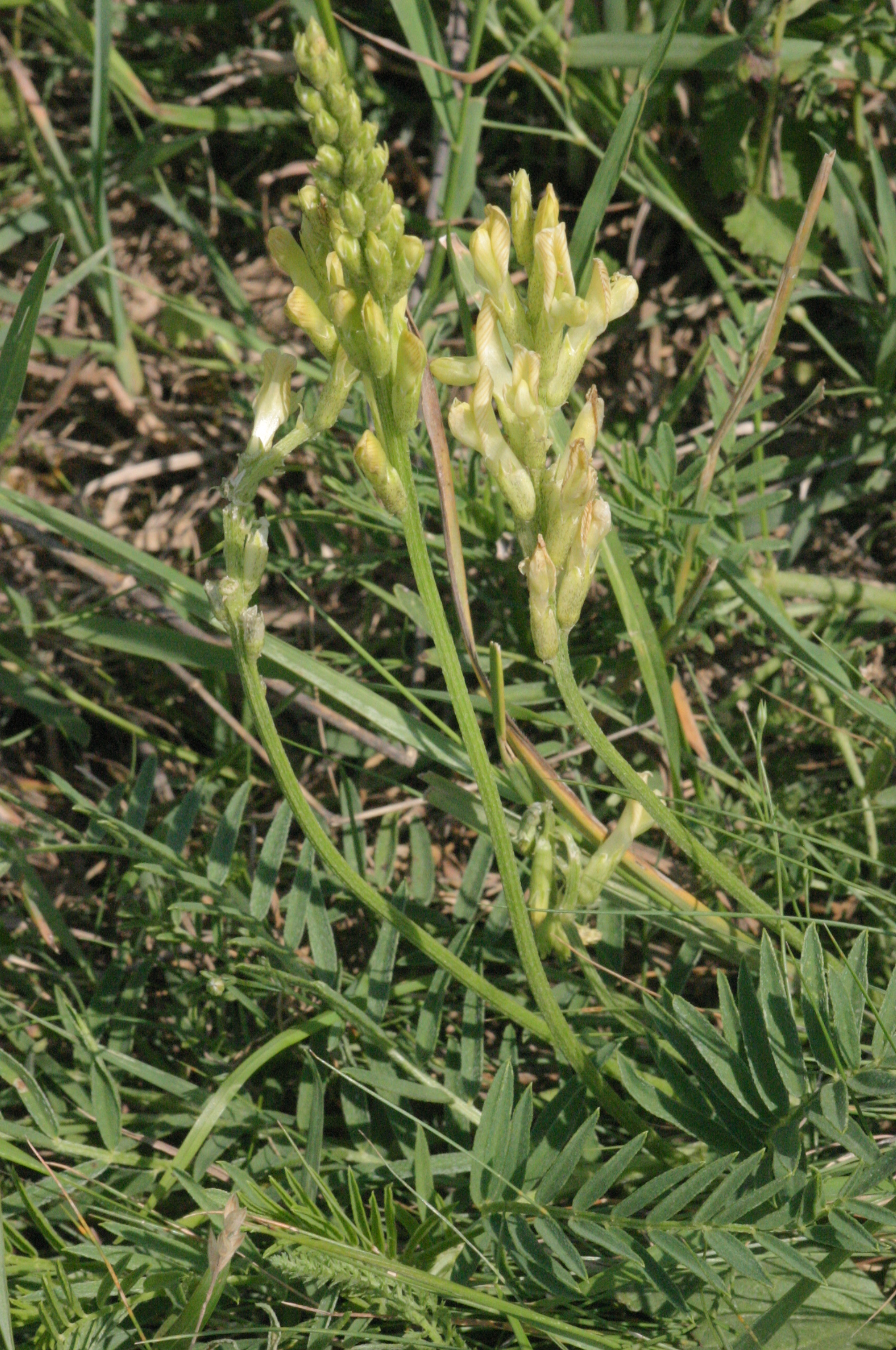 Astragalus asper